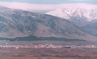 Greek town Prosotsani